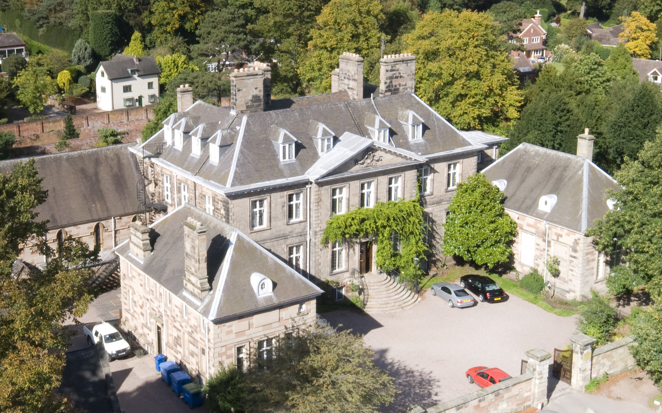 The Bishop's Palace, Lichfield. Located at the north east corner of the Cathedral Close. This view is taken from the central spire of Lichfield Cathedral.